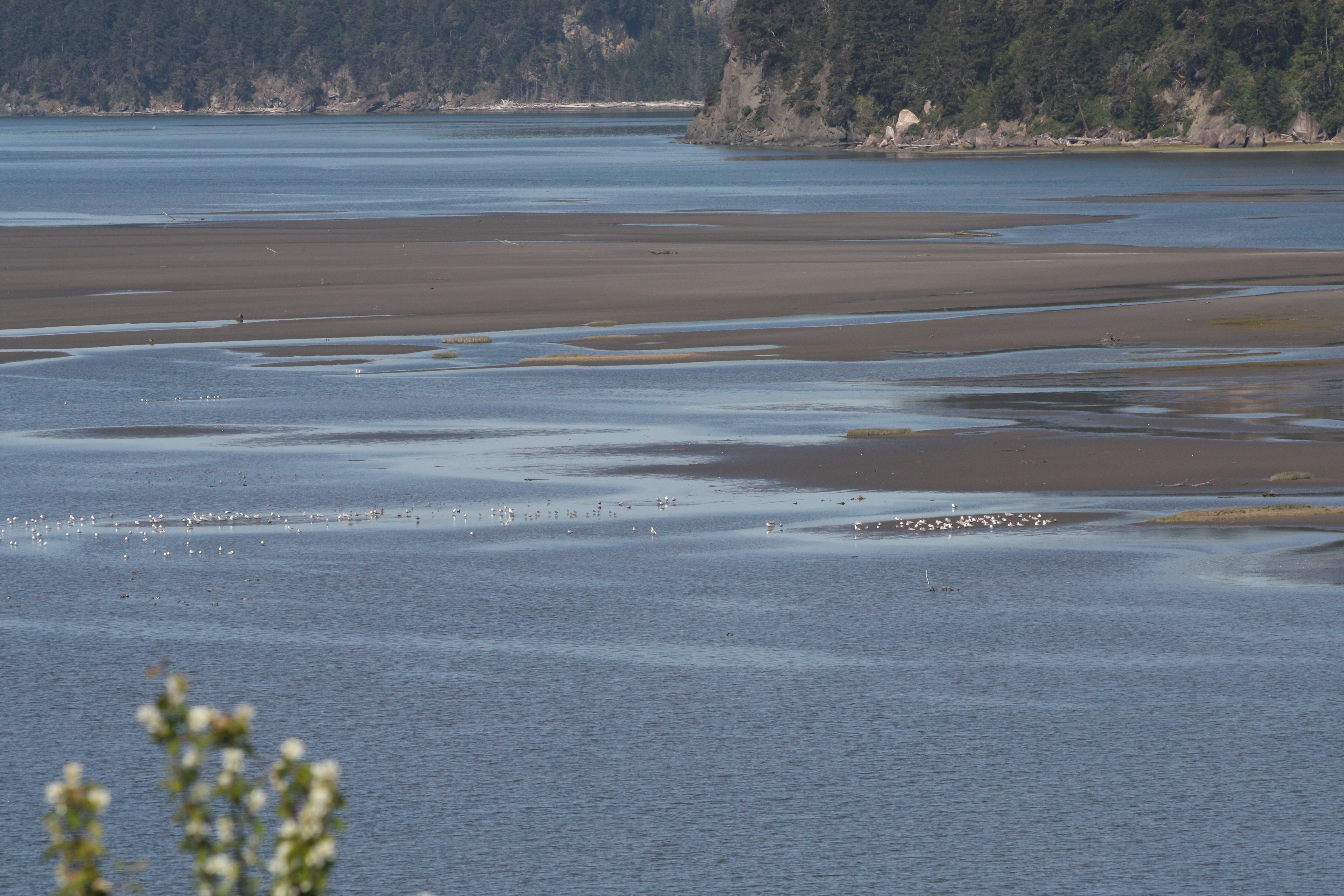 Skagit Bay mudflats; Larus sp.; Ika Island (Washington) behind right